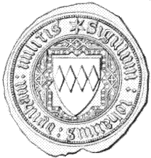 Seal of John III Dinham (1359-1428) appendant to an indenture dated 9 Richard II (1385) whereby John de Dynham, Knight, conveys certain lands to Roger Umssrey of Lostwythiel, and Joan his wife. On the seal are the arms of Dynham: Gules, four fusils in fess ermine, with inscription: Sigillum Johannis Dynham militis ("seal of John Dynham. knight.